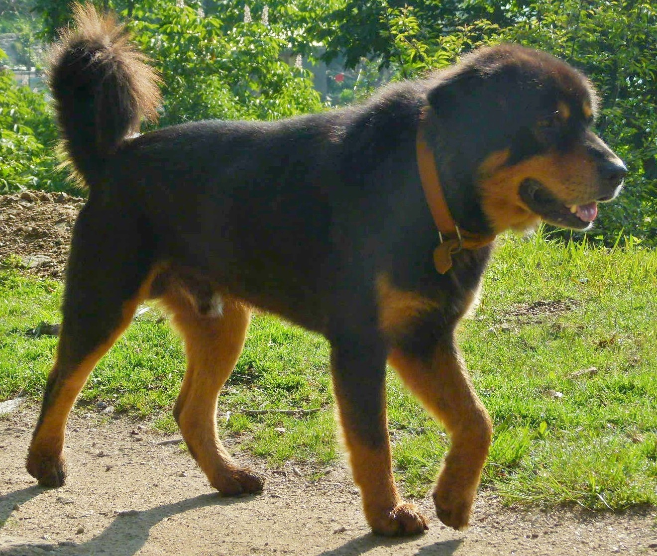 Himalayan Sheep Dog, central Himalayas